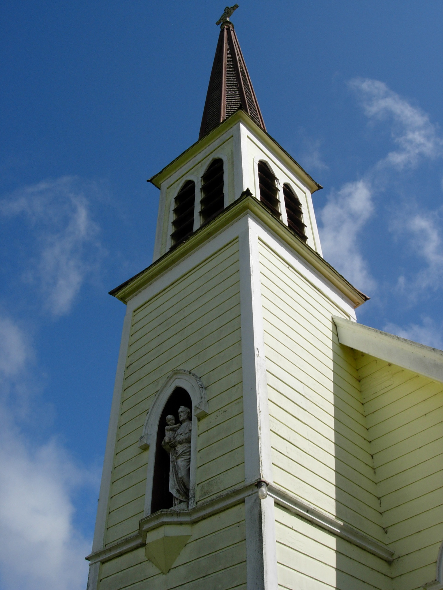 St Joseph's Church (Catholic), Wanganui River Road, Jerusalem, New Zealand. NZHPT Category I; registration number 161. Picture taken by Anna Davies of the Church at Jerusalem, New Zealand. Taken on 22 September 2005, Camera Nikon Coolpix 5200. Anna Davies is the girlfriend of user:htaccess, Anna has place this image under the creative commons Attribution Share Alike licence